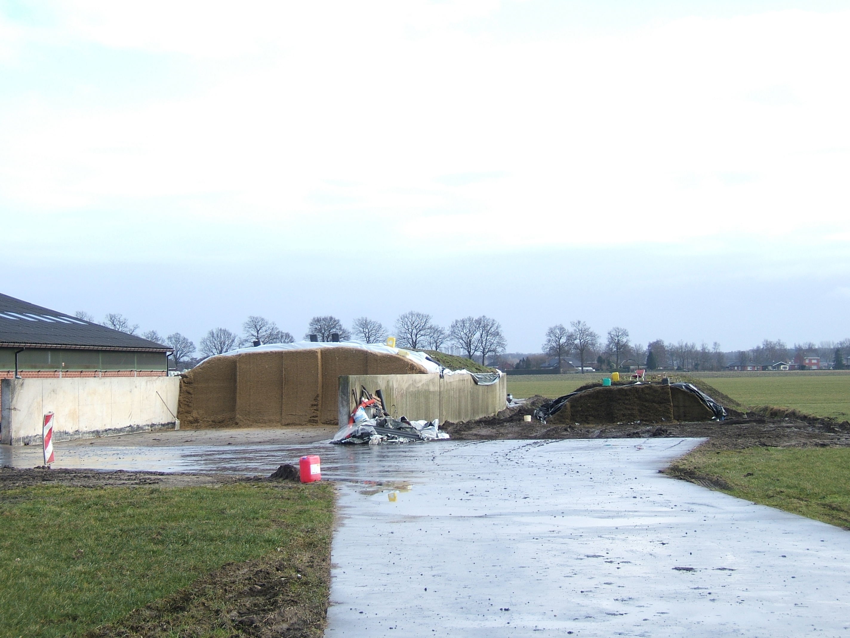 Two open silos on a farm somewhere in Noorderkempen, Belgium. A bunker silo with maize silage on the left, a grass silage heap on the right.